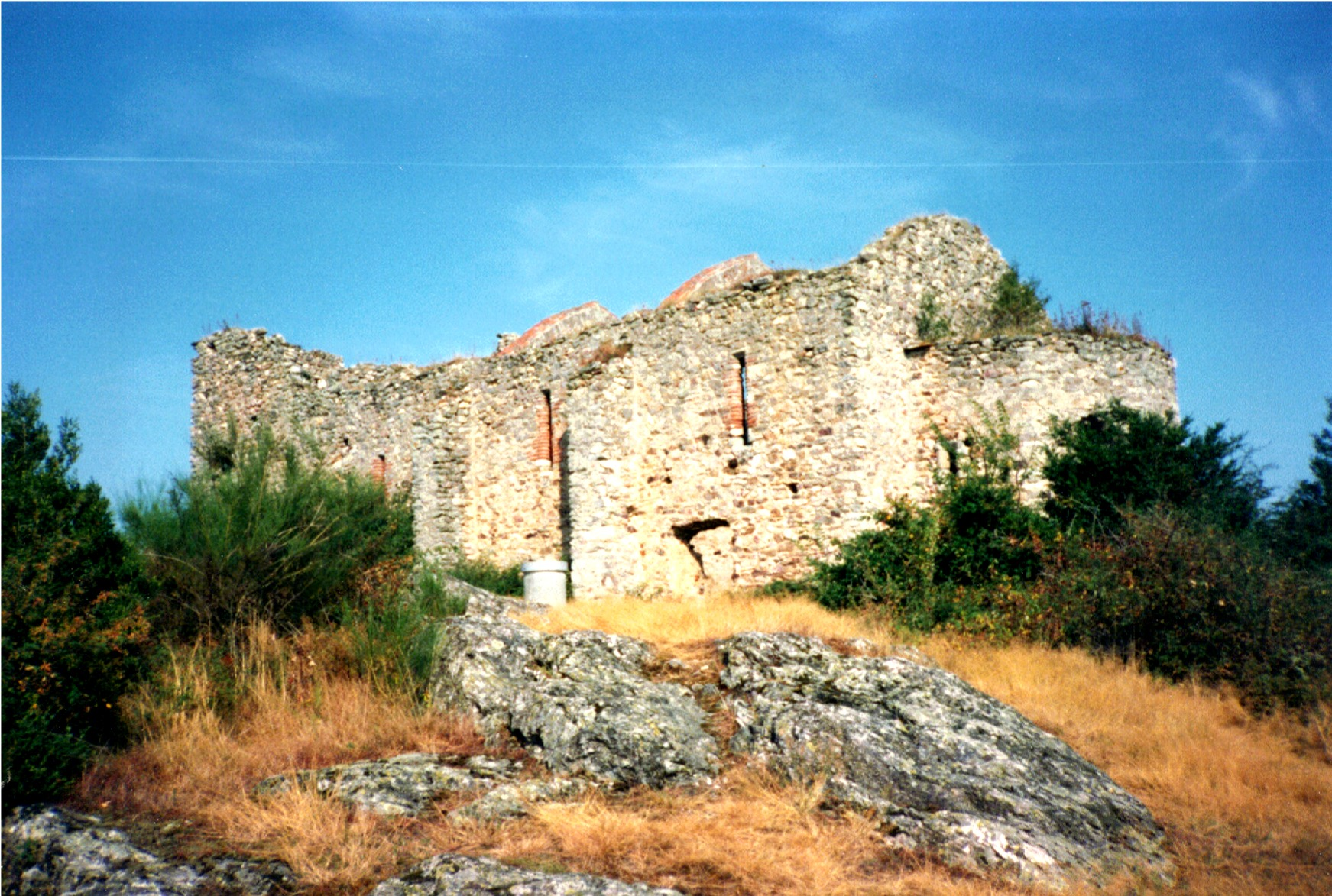 Puy Saint Gorges